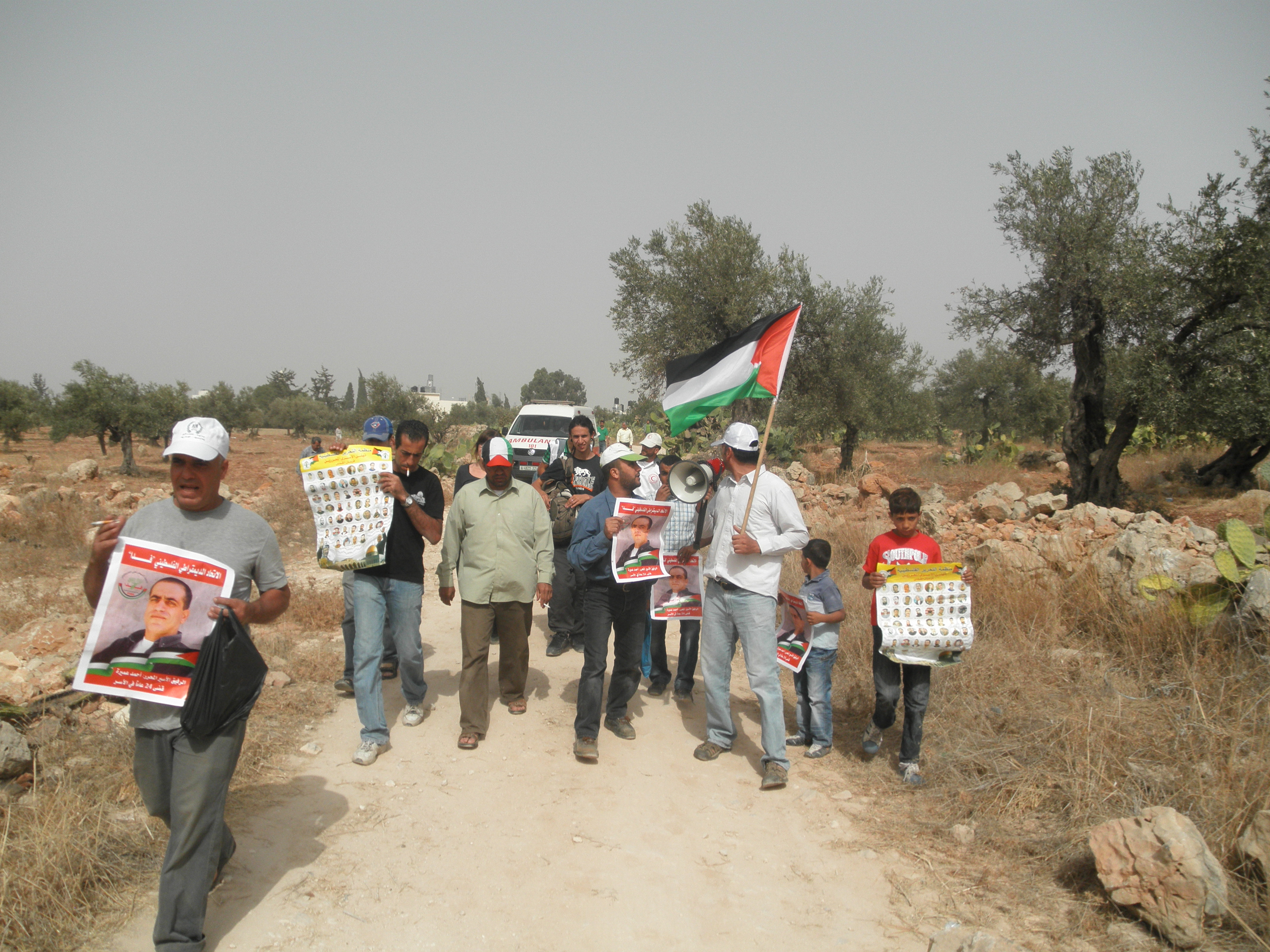 Demonstartion against land confiscation for the seperation wall, Ni'lin October 2011Unknown הפגנה בניעלין אוקטובר 2011